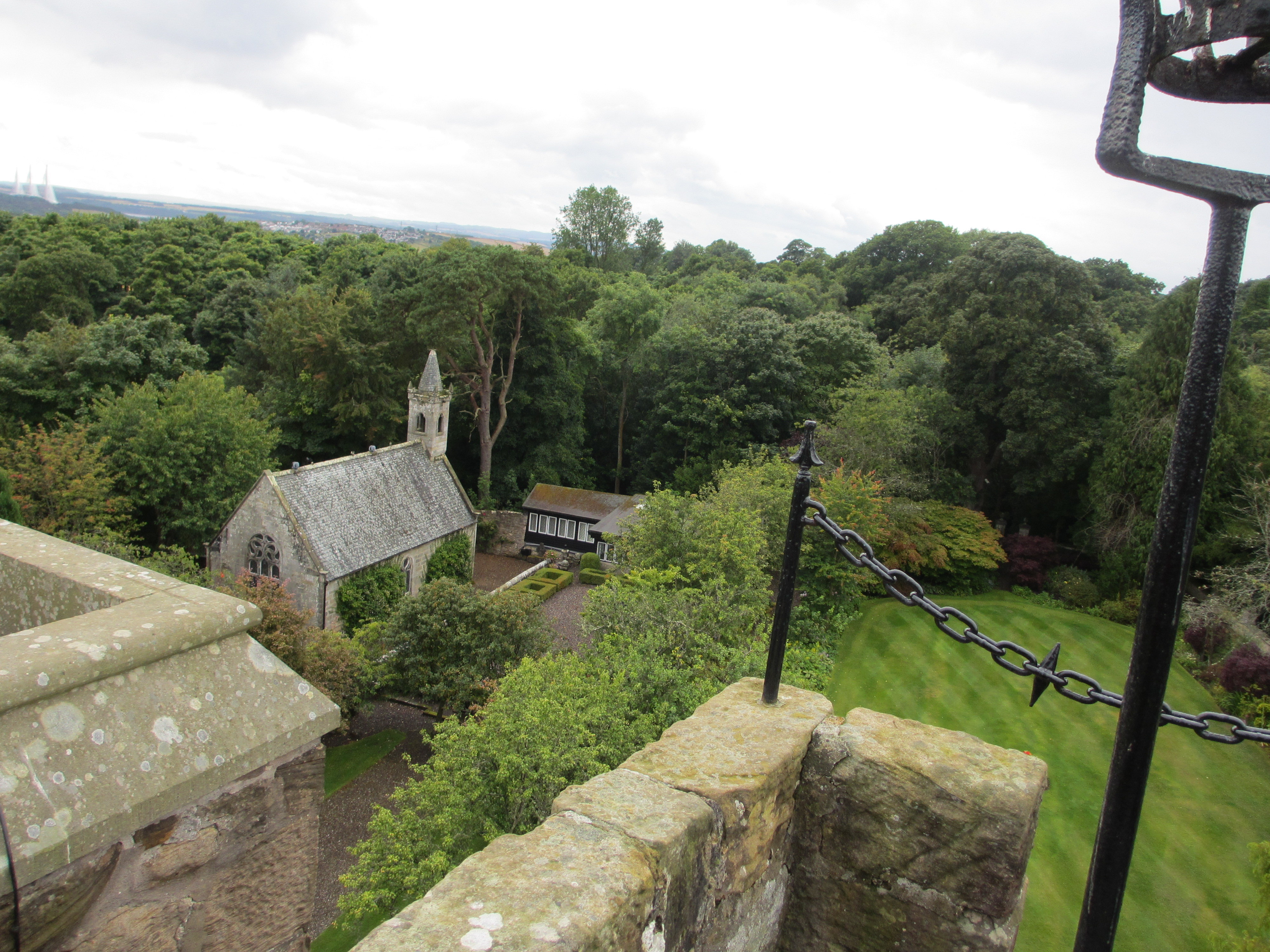 St. Thereota's Chapel, viewed from top of Fordell Castle